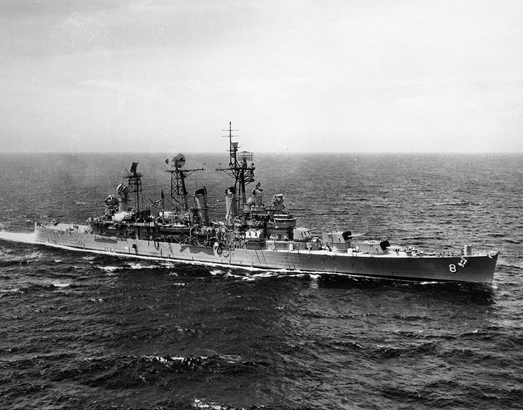 The U.S. Navy guided missile cruiser USS Topeka (CLG-8) at sea, circa the early 1960s.